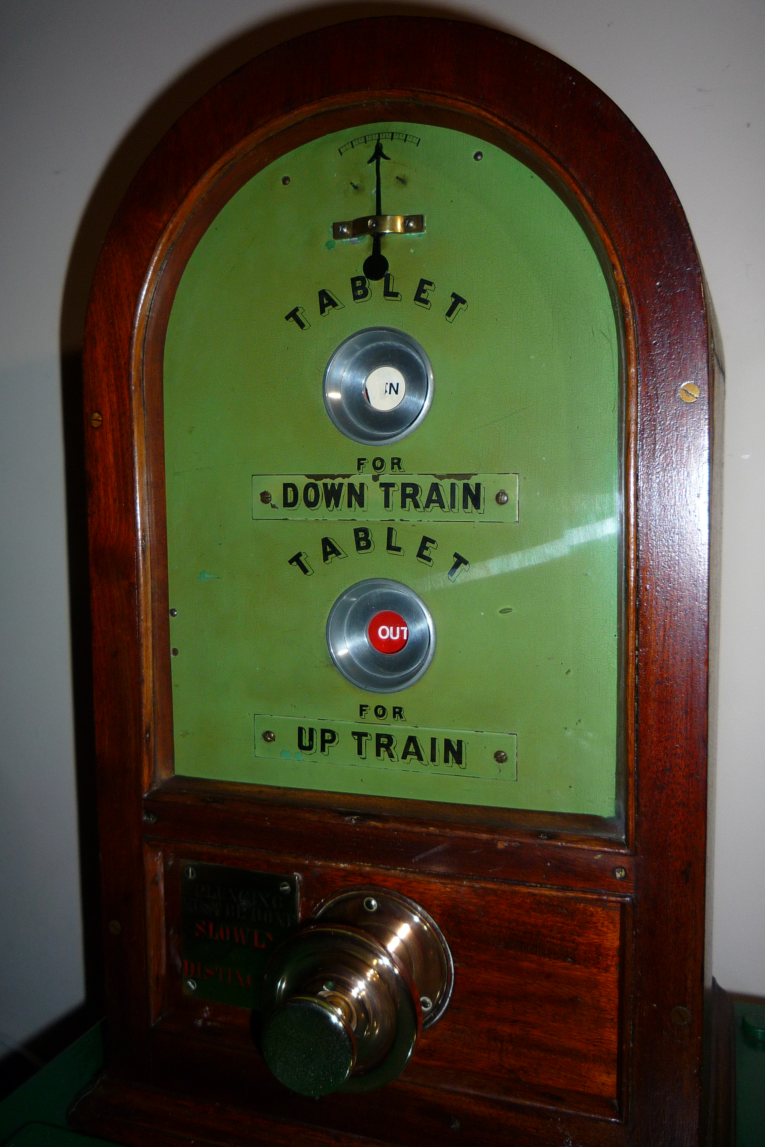 Indicator showing tablet withdrawn from the instrument for an up train.